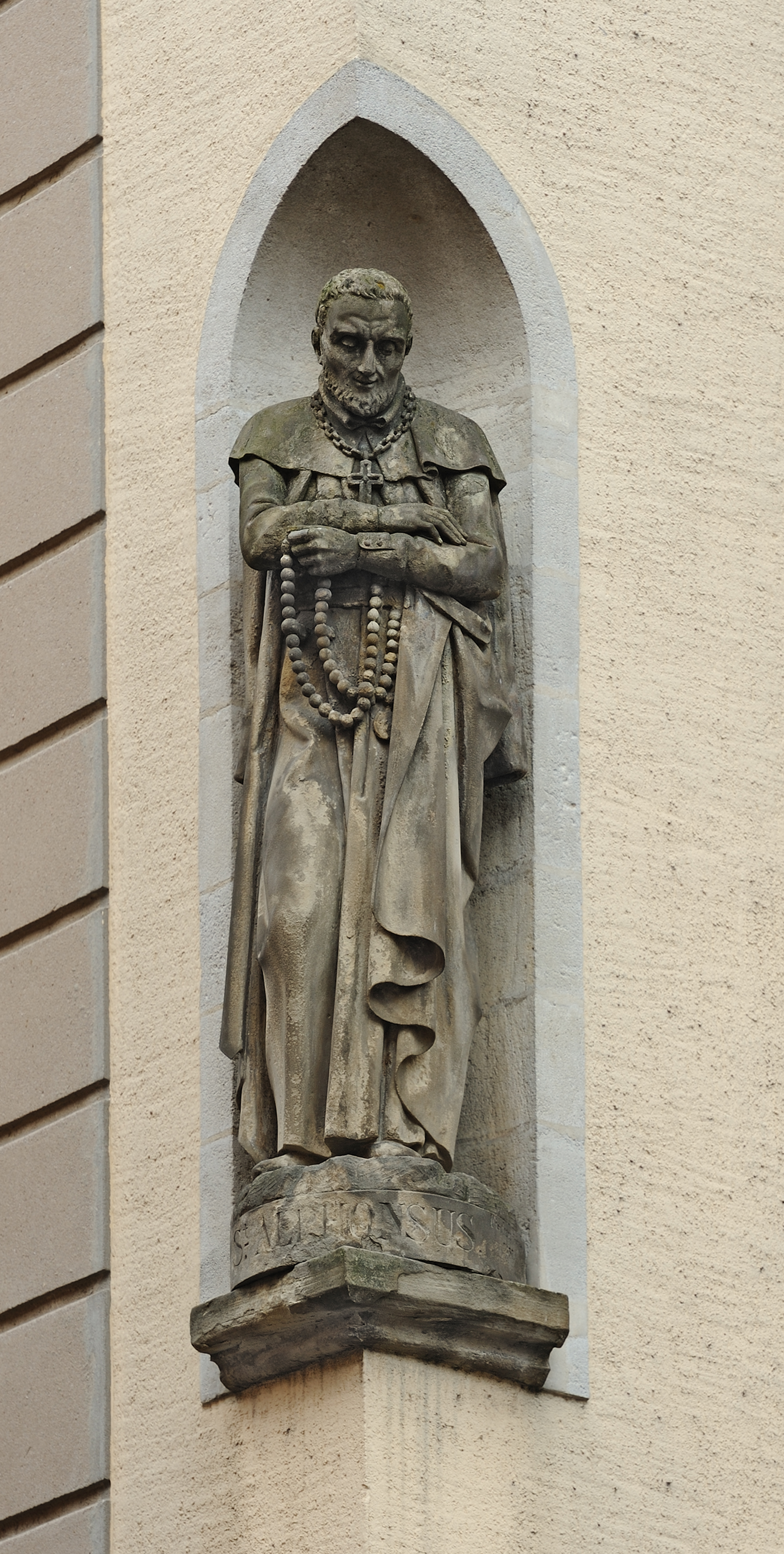 Luxembourg City, Saint-Alphonsus church : statue of Saint Alphonsus.(Alphonsus de Liguori 1696-1787).